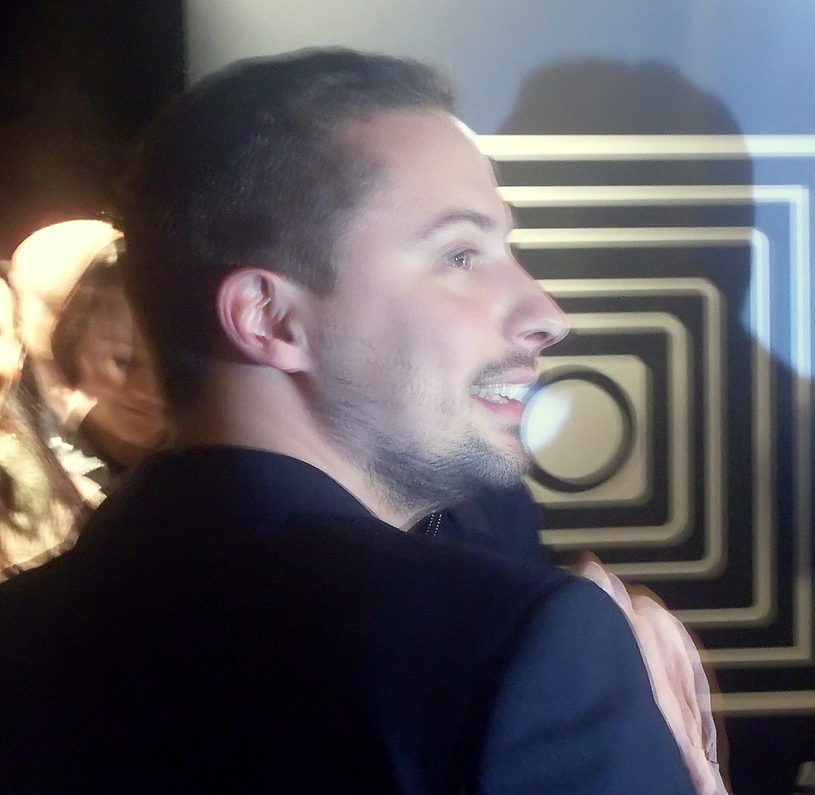 Polish composer and actor Antoni Łazarkiewicz at Polish Film Festiwal in Gdynia 2008.